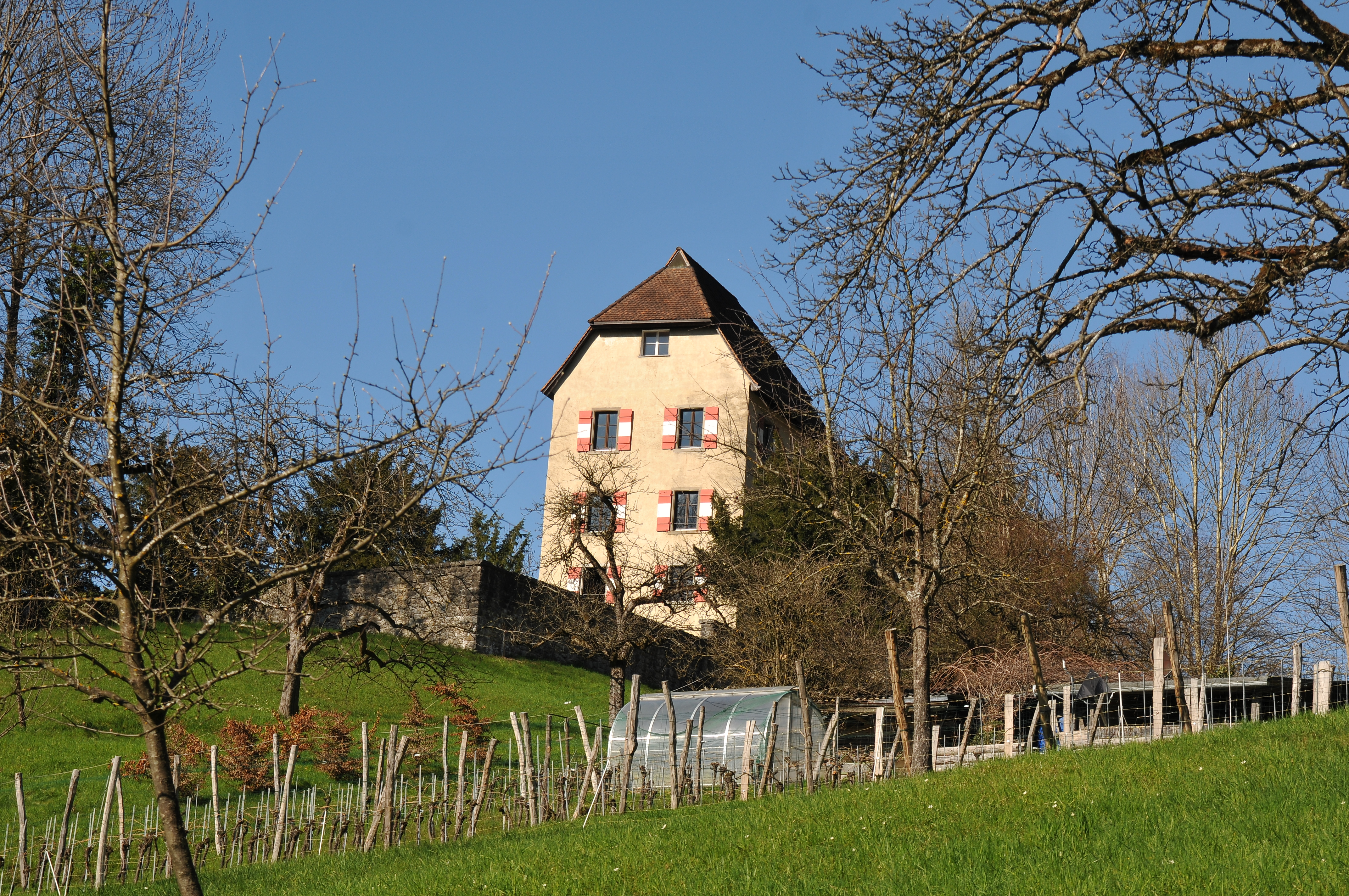 Amberg Castle in Feldkirch, Austria.